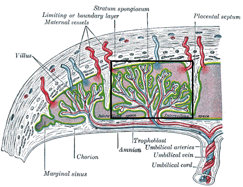 Derivative of File:Gray39.png Structure of the placenta, with a placental cotyledon marked in rectangle.